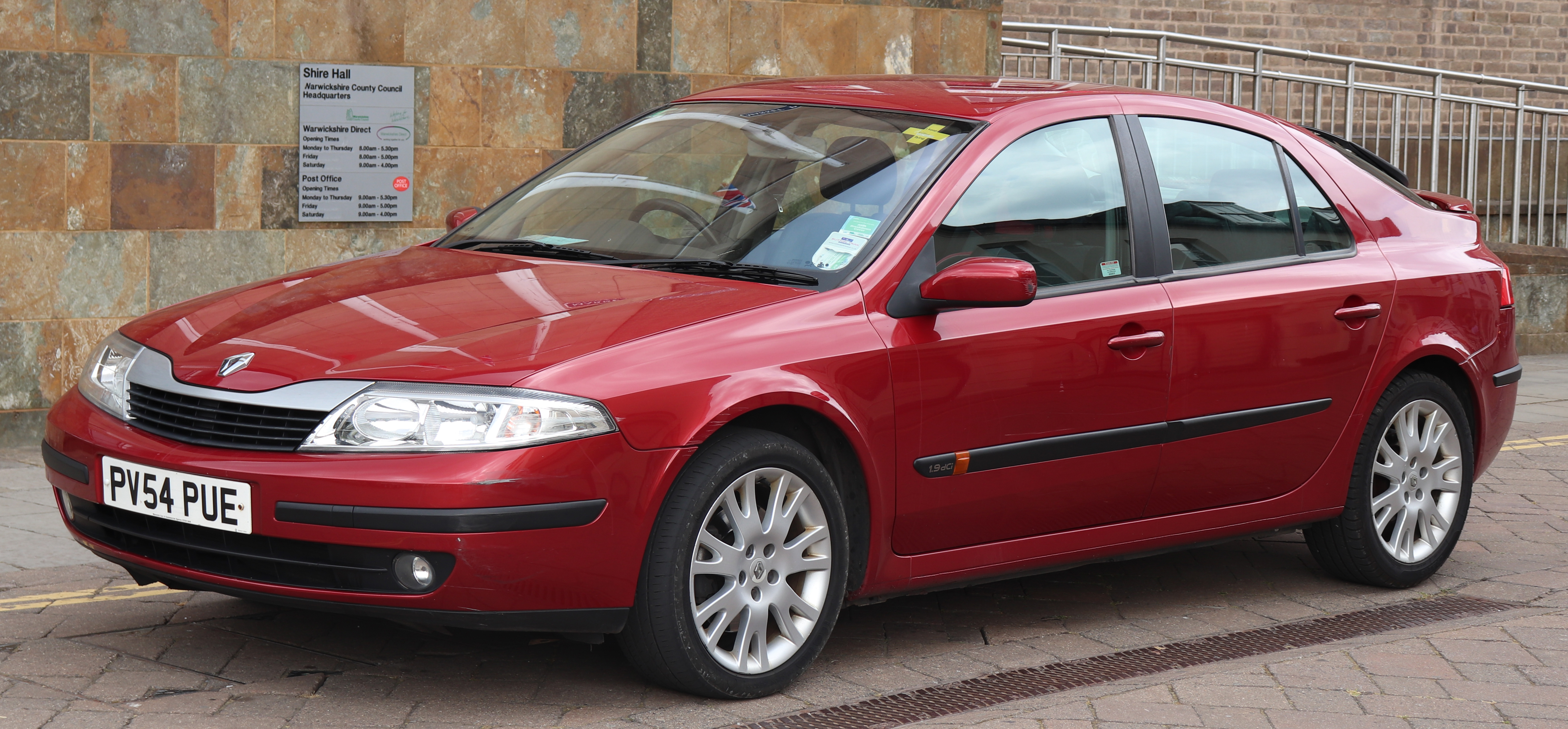 2005 Renault Laguna Dynamique DCi 120 1.9 Front Taken in Warwick